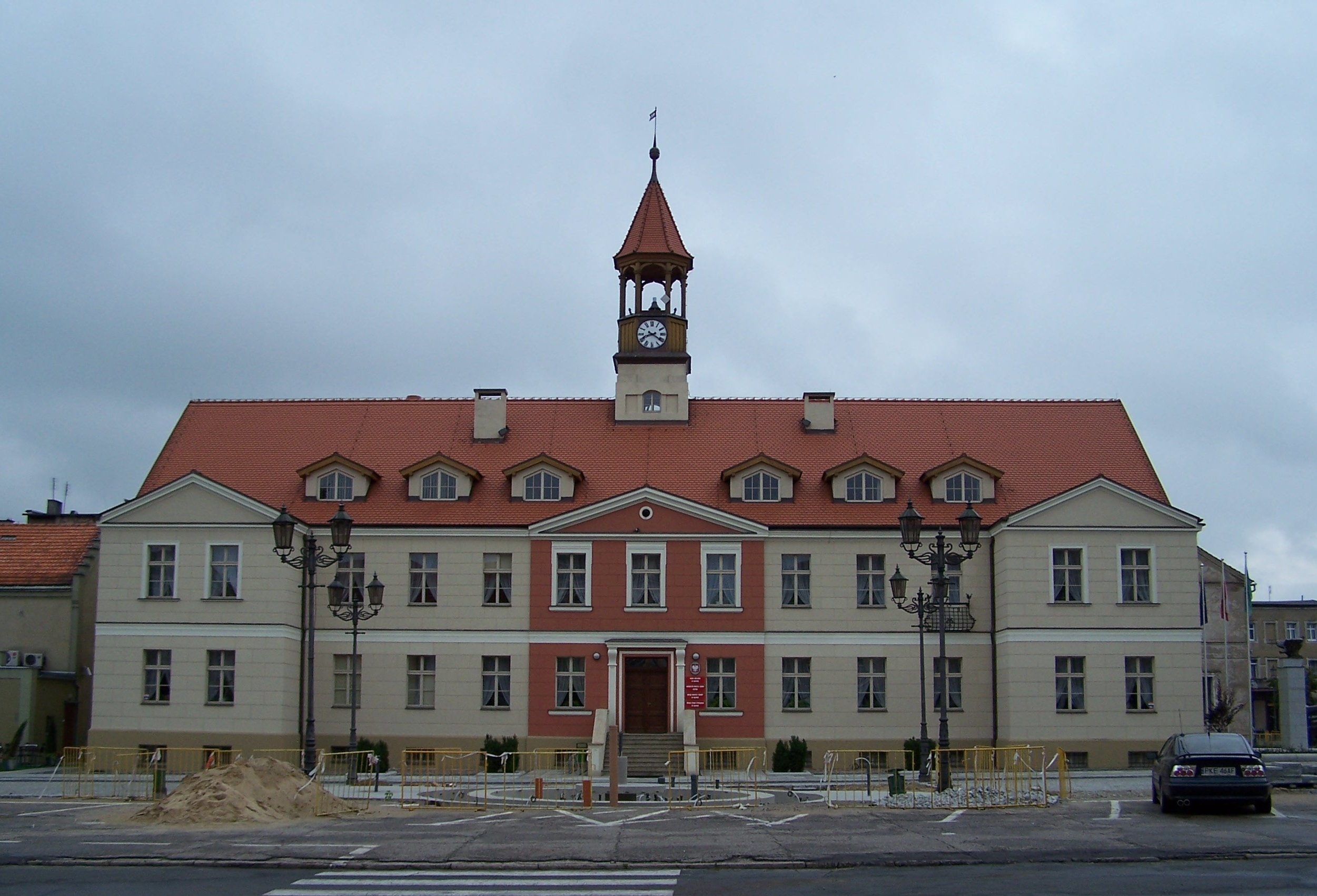 Town Hall in Kępno, Poland